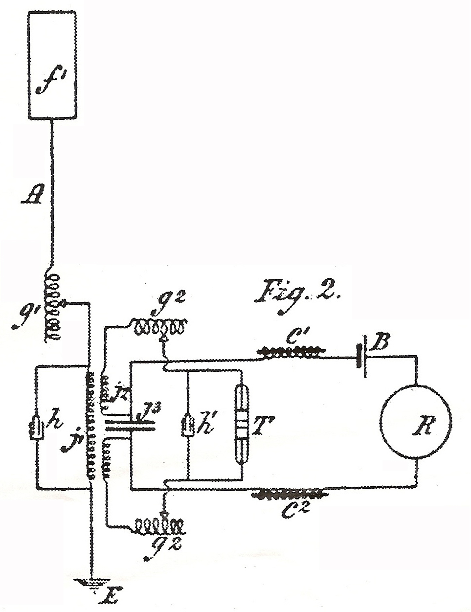 Inductively coupled coherer radio receiver circuit from Guglielmo Marconi's April 26, 1900 patent.